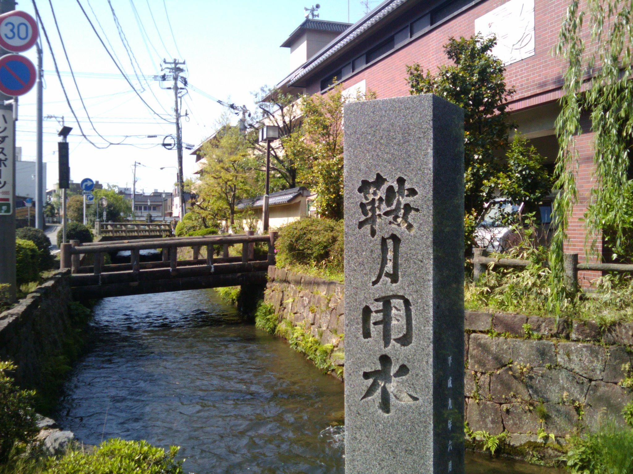 The Kuratsuki Canal (Kanazawa, Ishikawa, Japan)